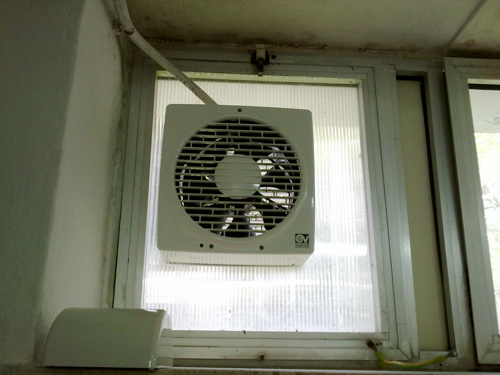 Vortice exhaust fan in a swimming pool in Nuoro